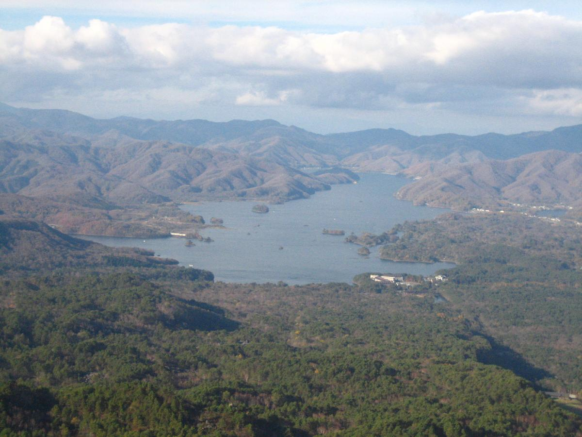 A picture of Lake Hibara in Fukushima Prefecture, Japan. Picture was taken from the top of Mount Bandai with a Canon Power Shot SD450 Digital Elph camera and modified using a Paint Shop program on a laptop computer.